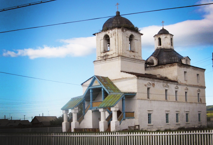 Chitkan-chirch-2